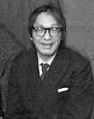 Hajime Togaeri (1914–63)